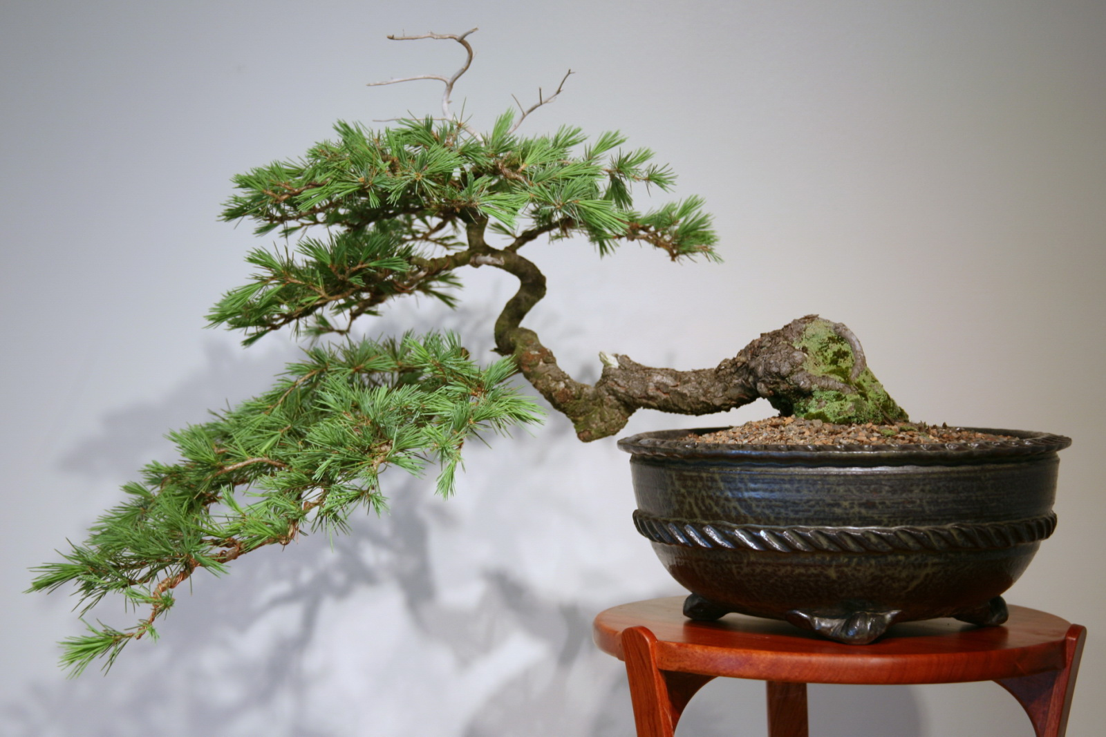 Cascade style 30 years in training